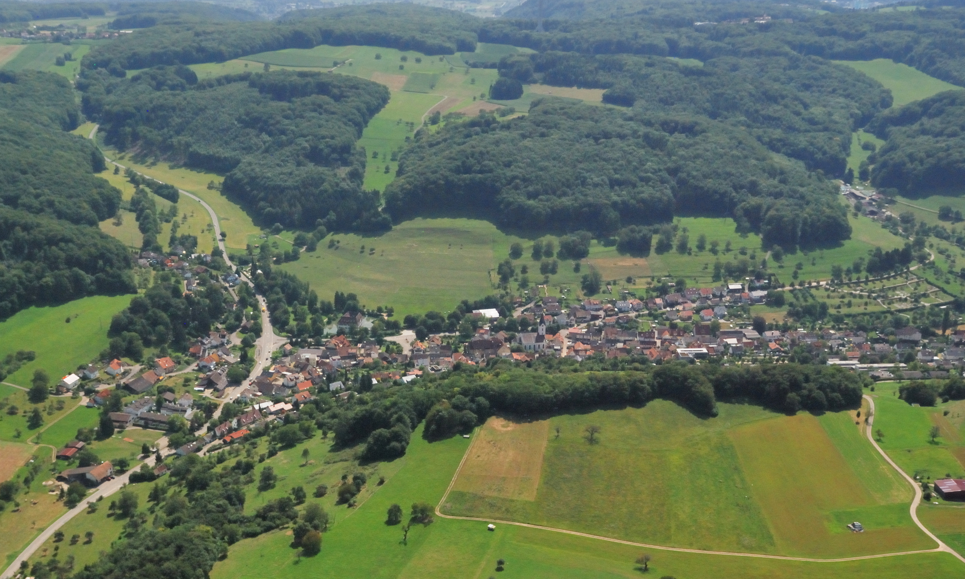 aerial view of Inzlingen